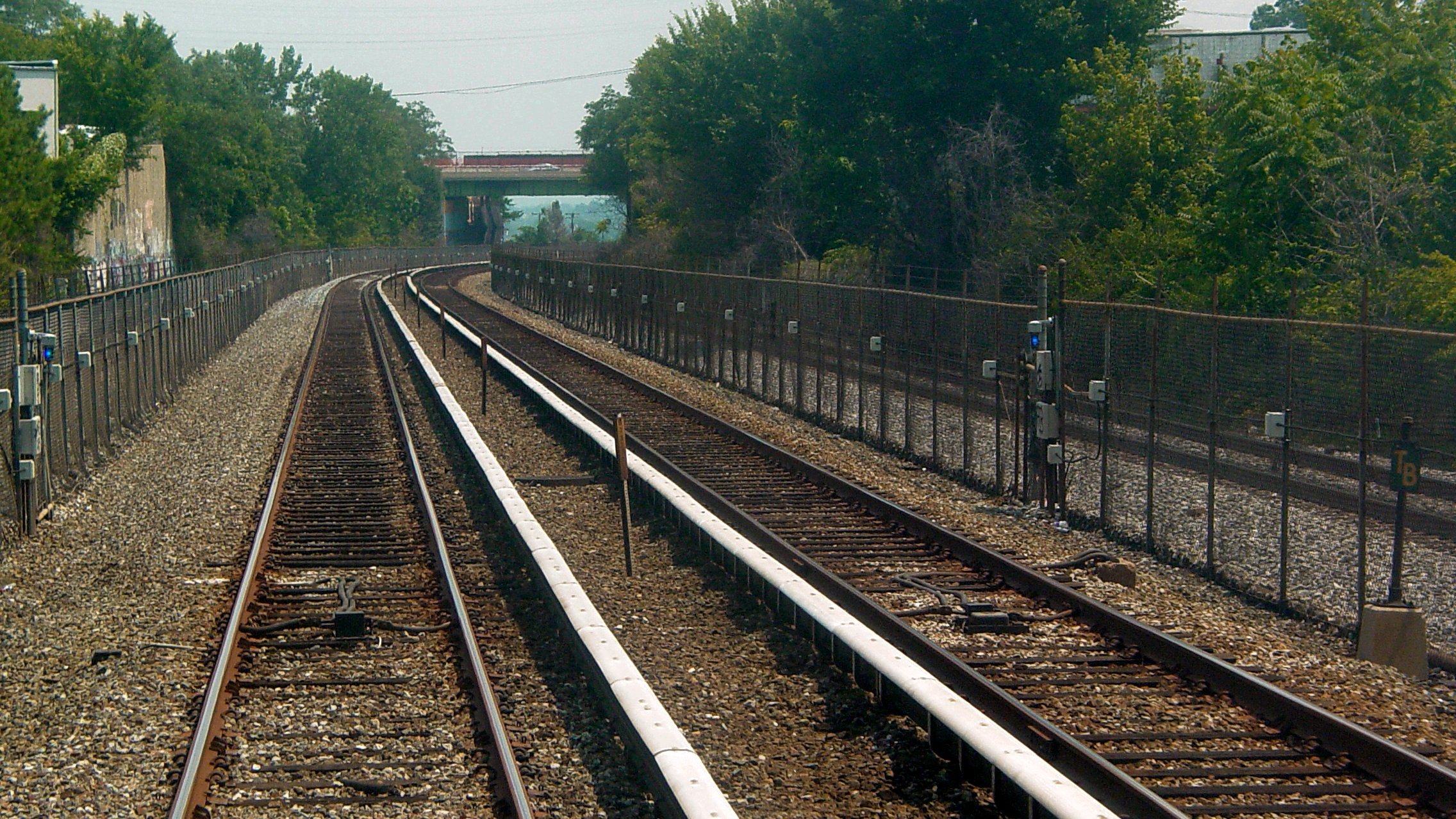 Inbound approach to site of June 22, 2009 Washington Metro train collision, between Takoma and Fort Totten stations. Note curve in tracks.